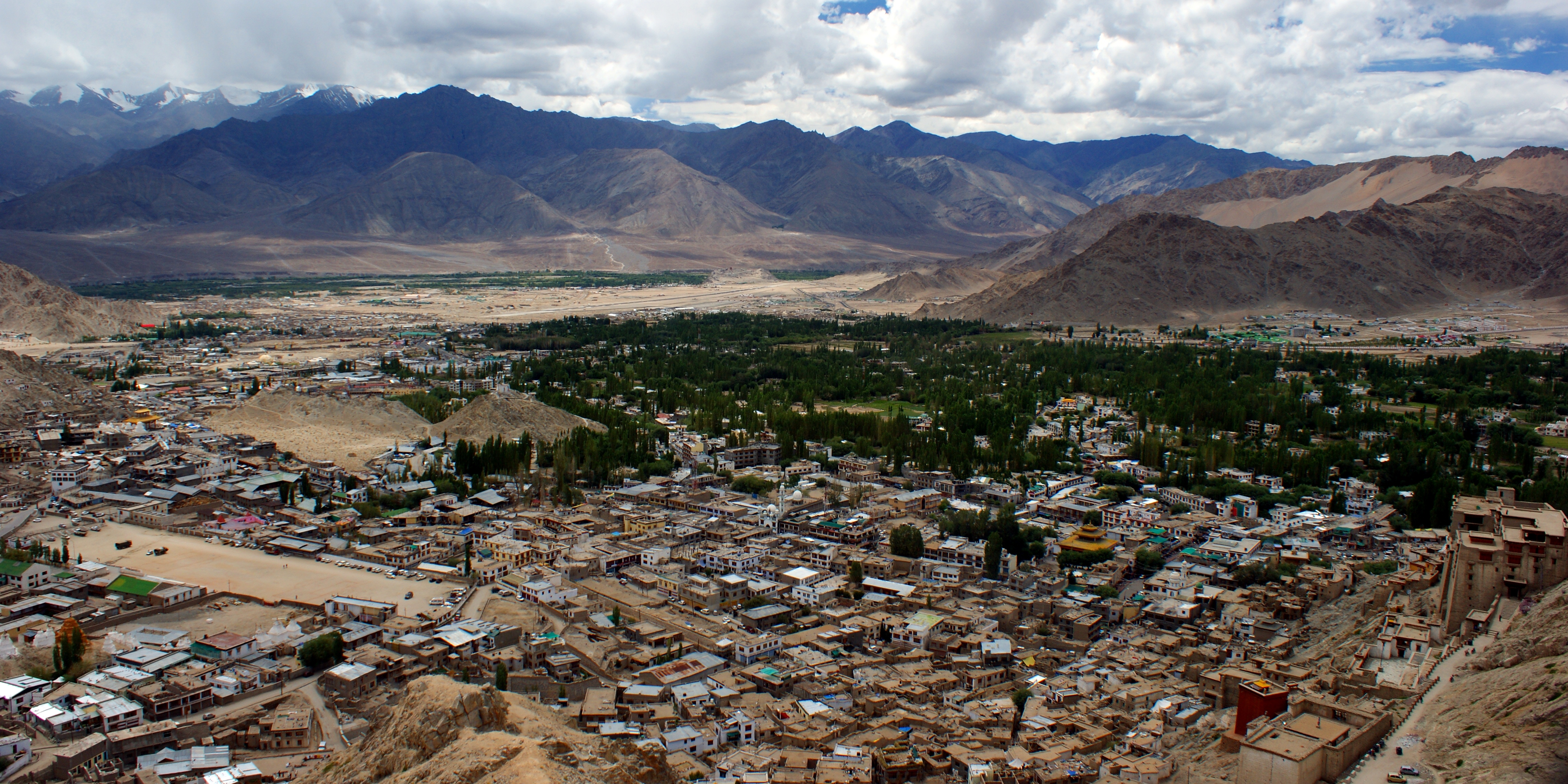 Leh from nearby hill